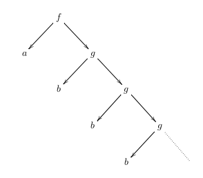 The infinite tree f(a,g(b,g(b,...)))